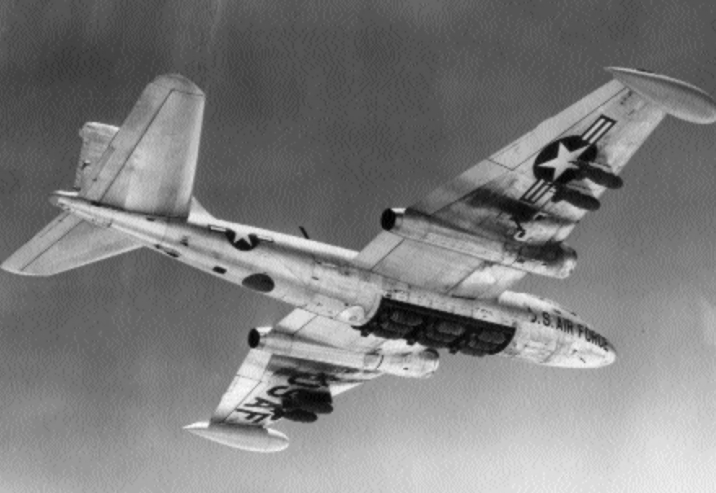 A U.S. Air Force Martin B-57B Canberra with its bomb bay opened, over Vietnam in 1966. B-57s from the 8th Bombardment Squadron and 13th Bombardment Squadron operated out of Da Nang Air Base.